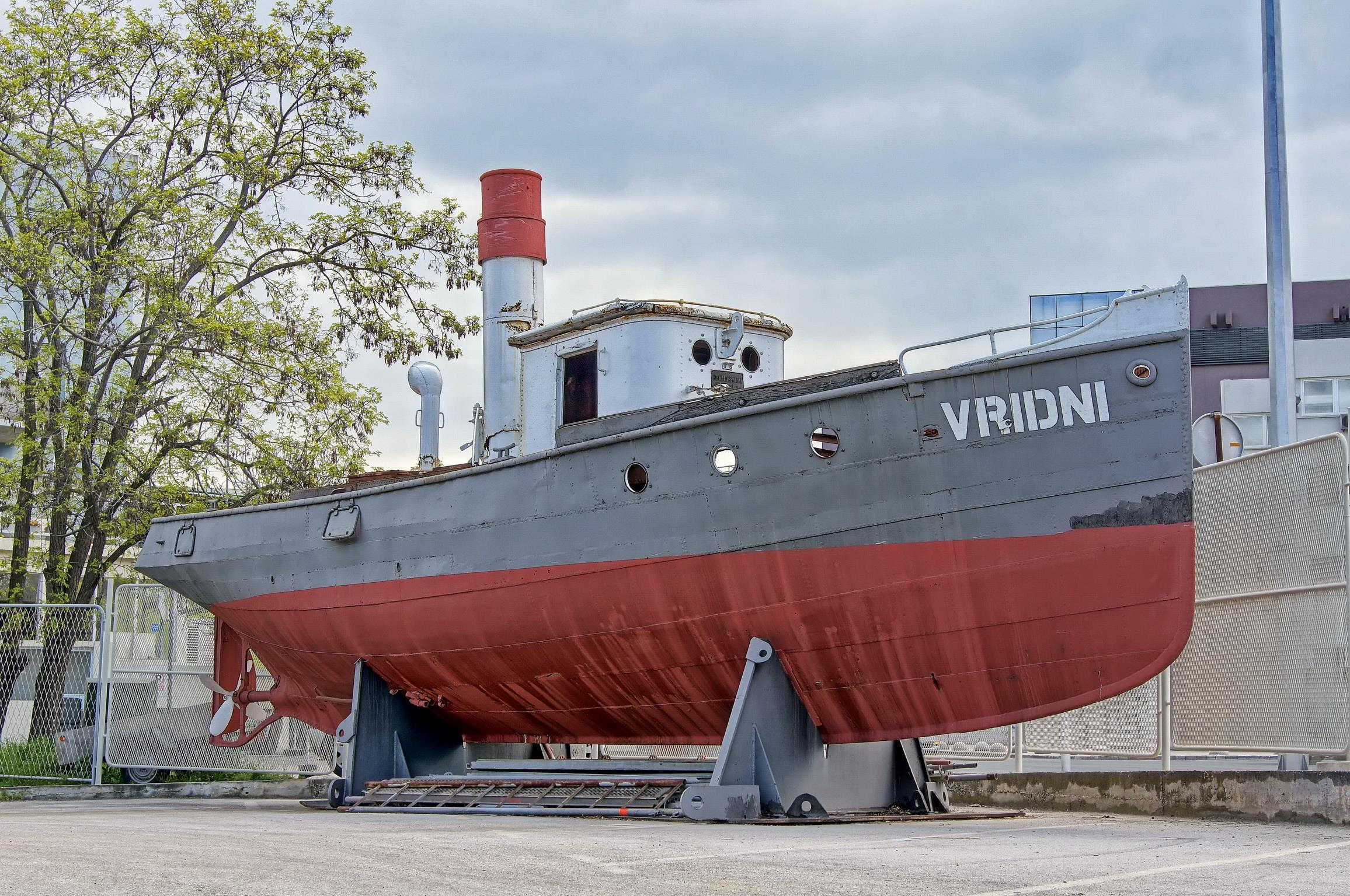 Vridni (tugboat, 1894); A metal plate at the front side of the wheelhouse says: "HOWALDTSWERKE, KIEL, 1894, No 452", but the item makes a controversy. The ship is, by all odds, built at the Howaldtswerke's subsidiary in Austria-Hungarian Fiume in 1894, but the confusing metal plate at the ship's superstructure remains a mystery. The tug is displayed at a corner of a parking lot at one of the entrances to Brodosplit Shipyard Company, Split, Croatia.